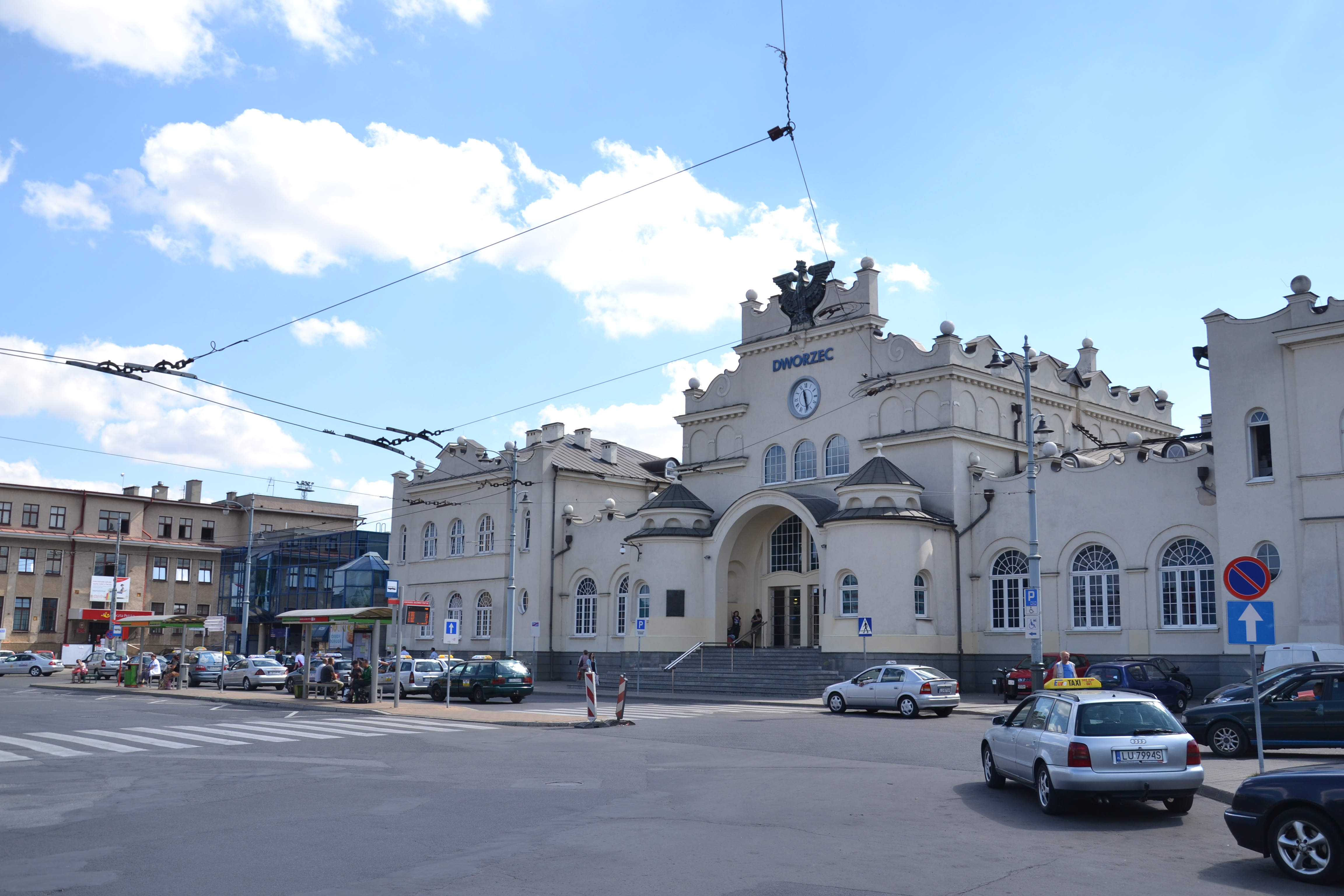 Widok dworca kolejowego w Lublinie (widok od strony miasta) This photo was taken during Railway Wikiexpedition 2015 set up by Wikimedia Polska Association in cooperation with Fundacja Grupy PKP.You can see all photographs in category Wikiekspedycja kolejowa 2015.